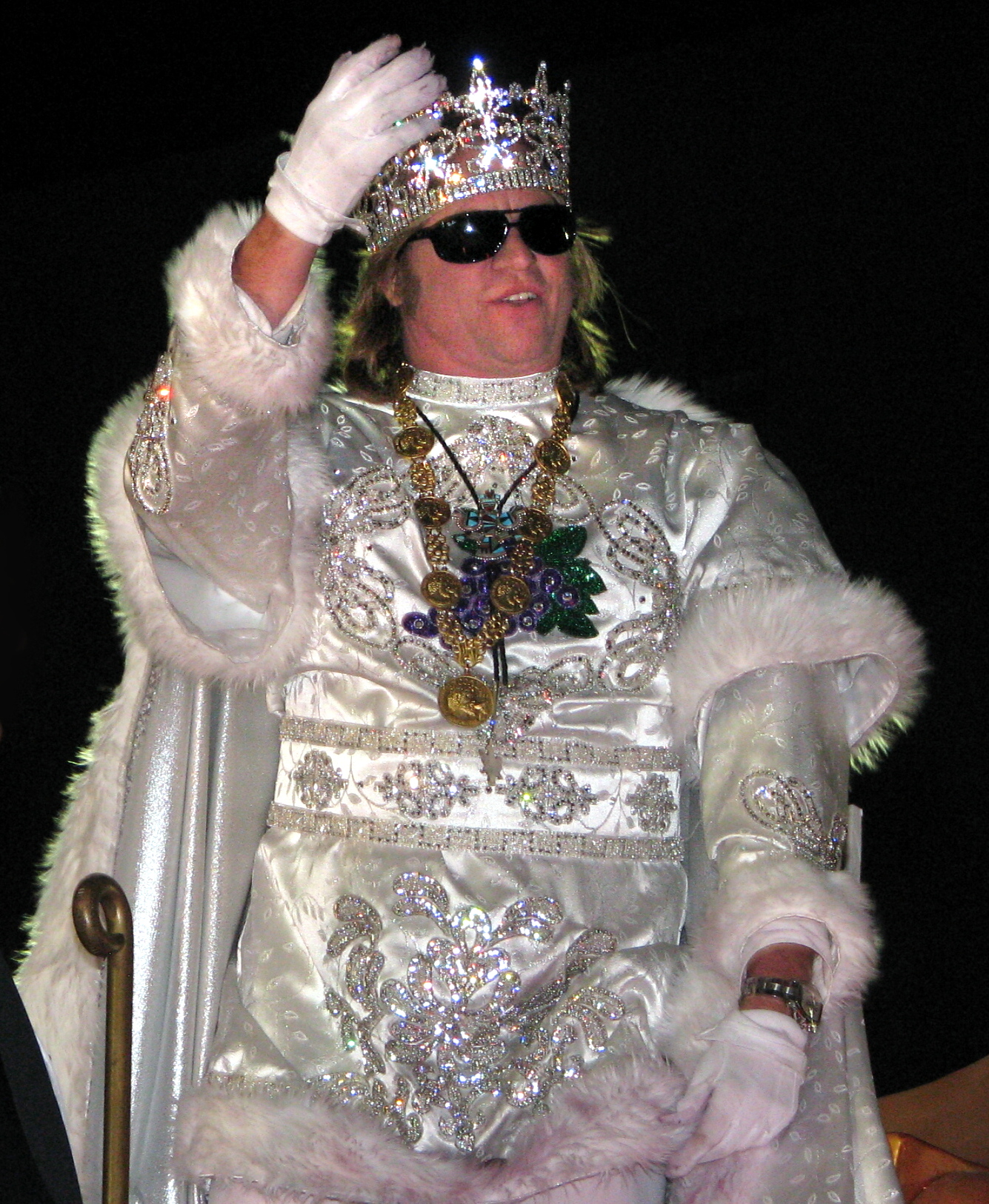 Actor Val Kilmer reigning as King of the Bacchus Parade, Sunday before Mardi Gras Day, New Orleans.